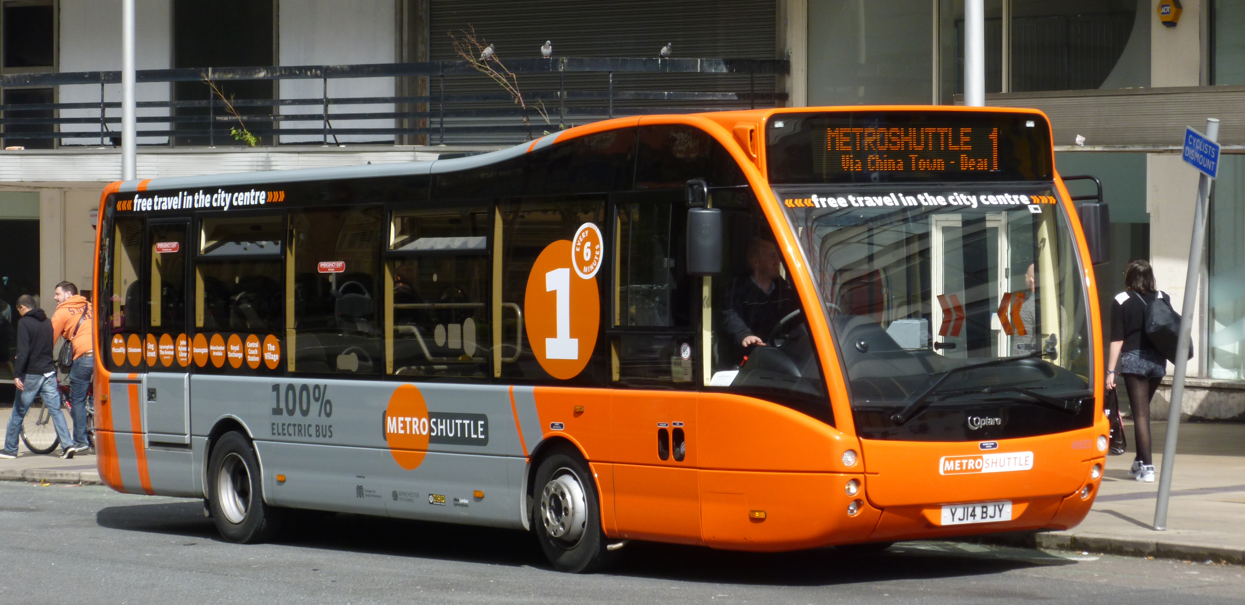 A fully battery-electric Optare Versa midibus, YJ14 BJY (number 49923 in the fleet of First Manchester), at Piccadilly Station Approach, Manchester.